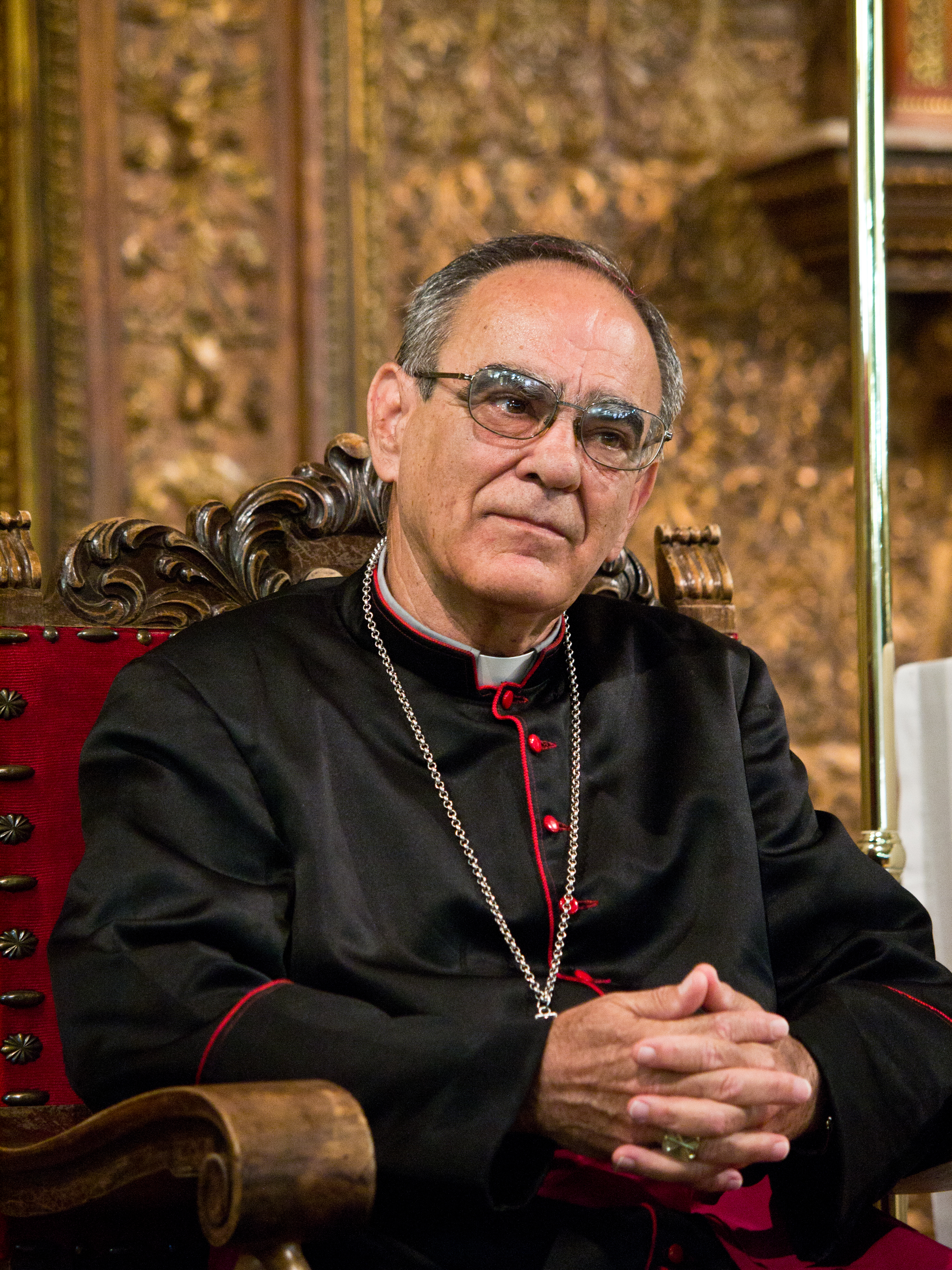 Most Rev. Álvaro Beyra Luarca,Bishop of Bayamo Manzanillo, Cuba, delivers a talk as part of events for World youth day in Madrid, Spain, 2011.